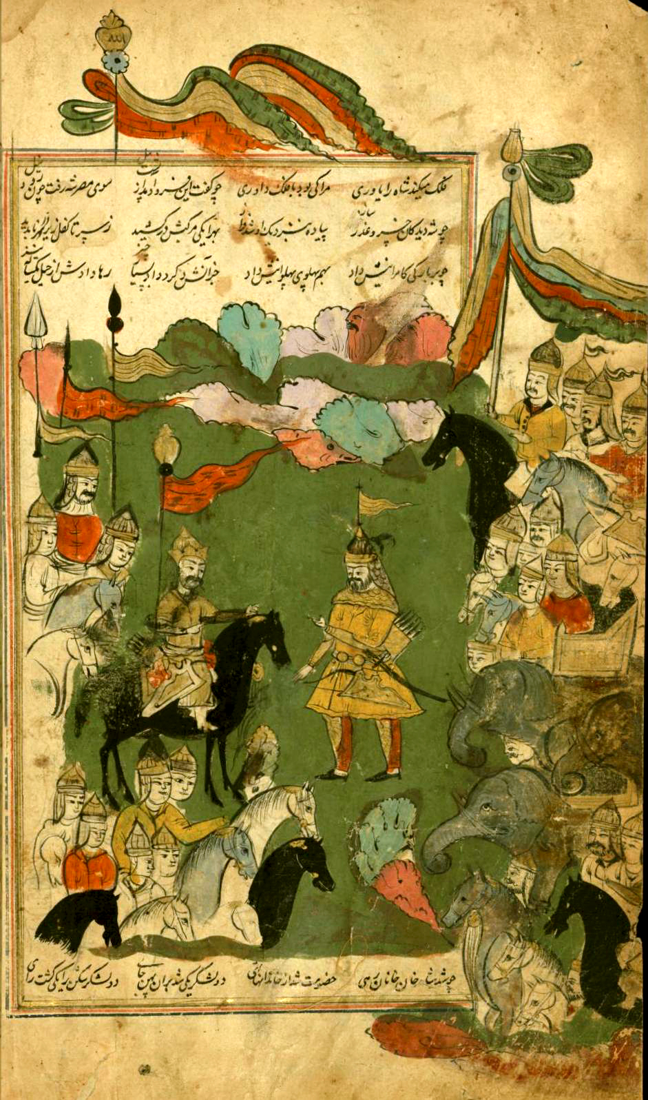 Nizami Ganjavi - Alexander the Great Meets the King of China - Walters W612307BAzərbaycanca: Makedoniyalı İskəndərin Çin xaqanı ilə